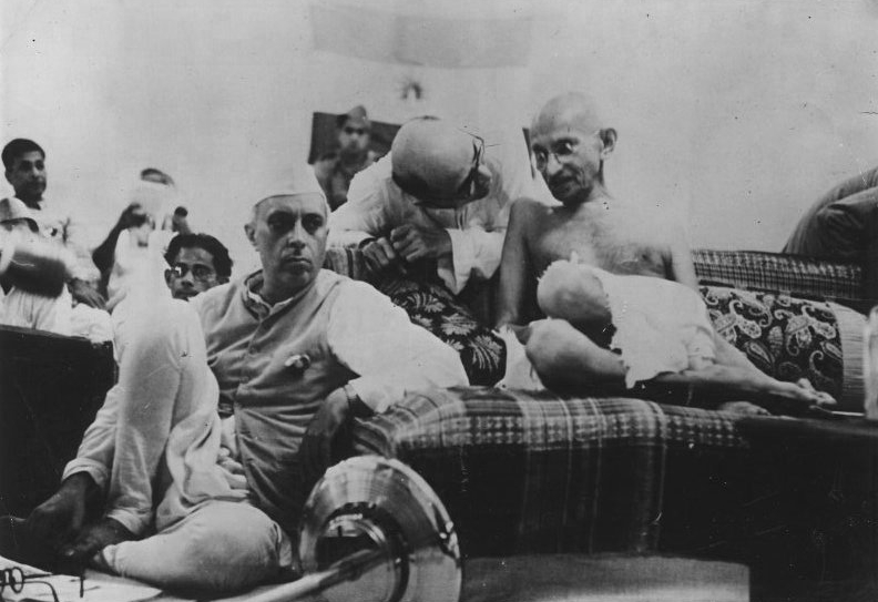 Nehru with Gandhi, August 1942.